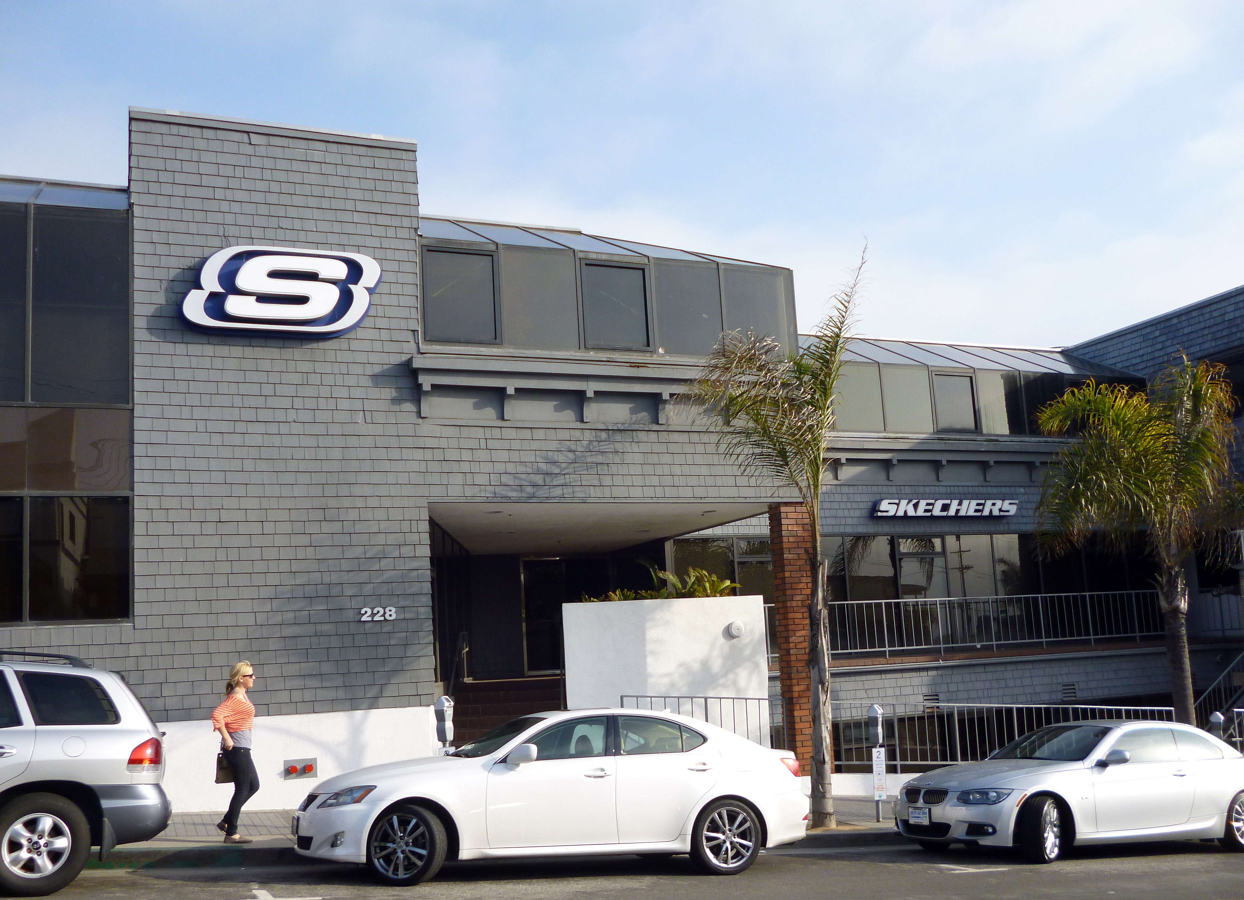 Skechers headquarters in Manhattan Beach, California as photographed by user Coolcaesar on April 29, 2012.